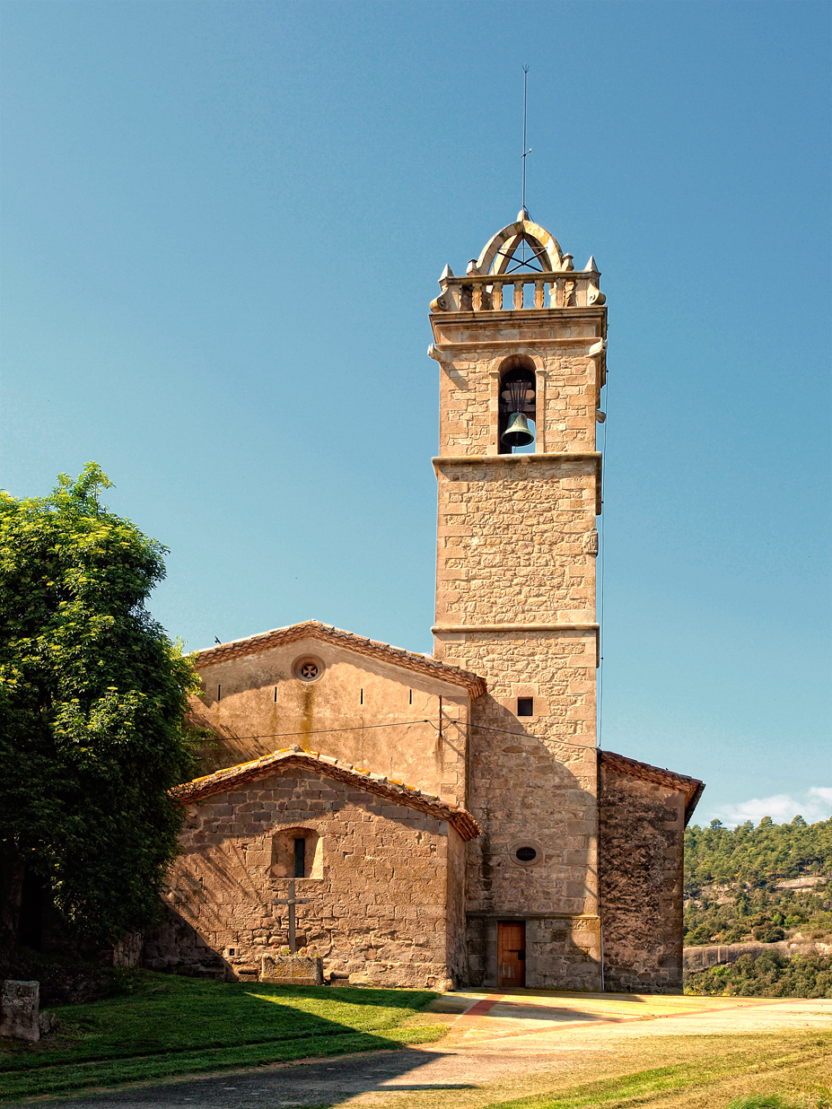 Sant Miquel church from Viver (Catalonia, Spain)